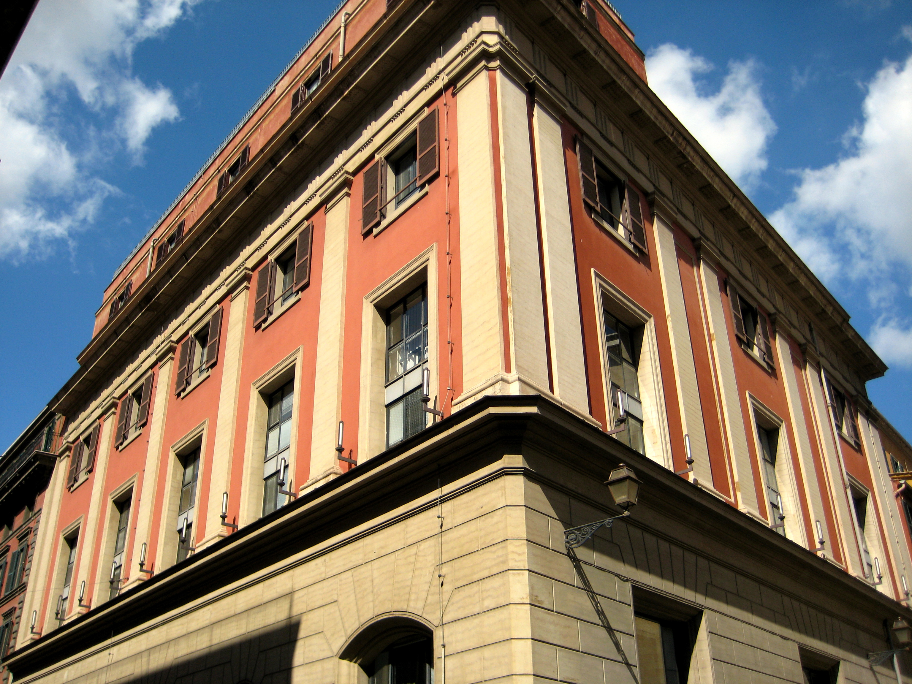 Via di S. Nicola da Tolentino 72, Rome. It is believed that the corner rooms were the studio and living quarters of the Australian artist, Dora Ohlfsen (1869–1948), who lived in the building with her partner from around 1902 until their deaths in 1948. The building is directly opposite the church of San Nicola da Tolentino agli Orti Sallustiani and near Piazza Barberini.